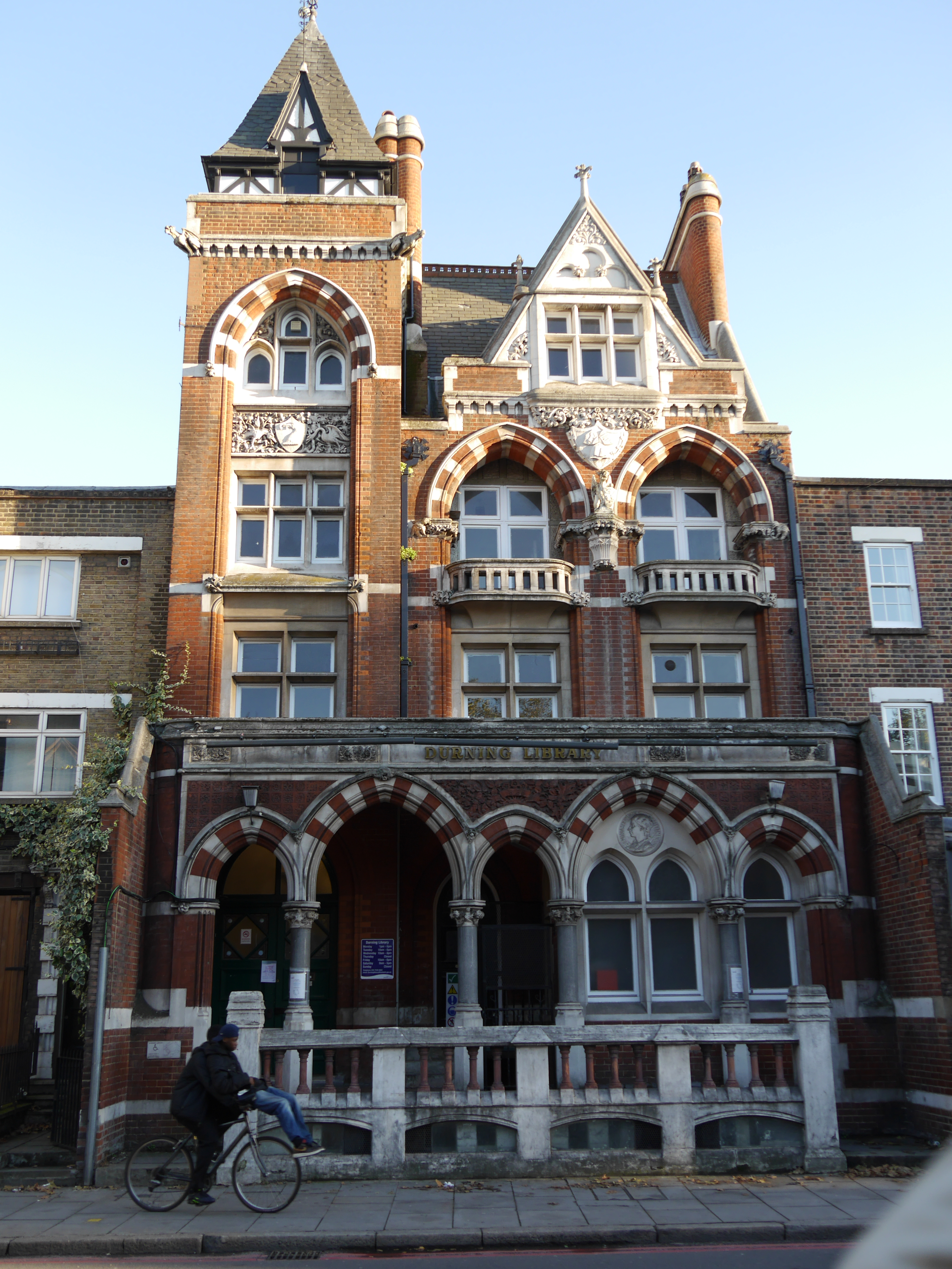 Durning Library, October 2014